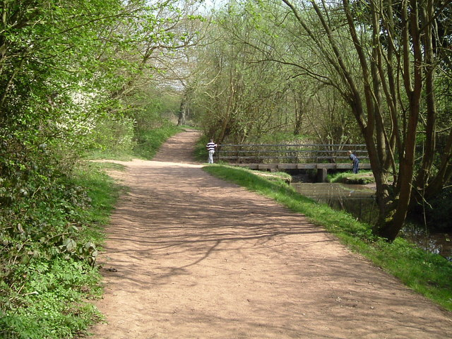 Paths and Bridge in Woodgate Valley Country Park Here a pleasant path within Woodgate Valley Country Park runs beside the Bourn Brook. The path and stream are here crossed by another path running north-south.